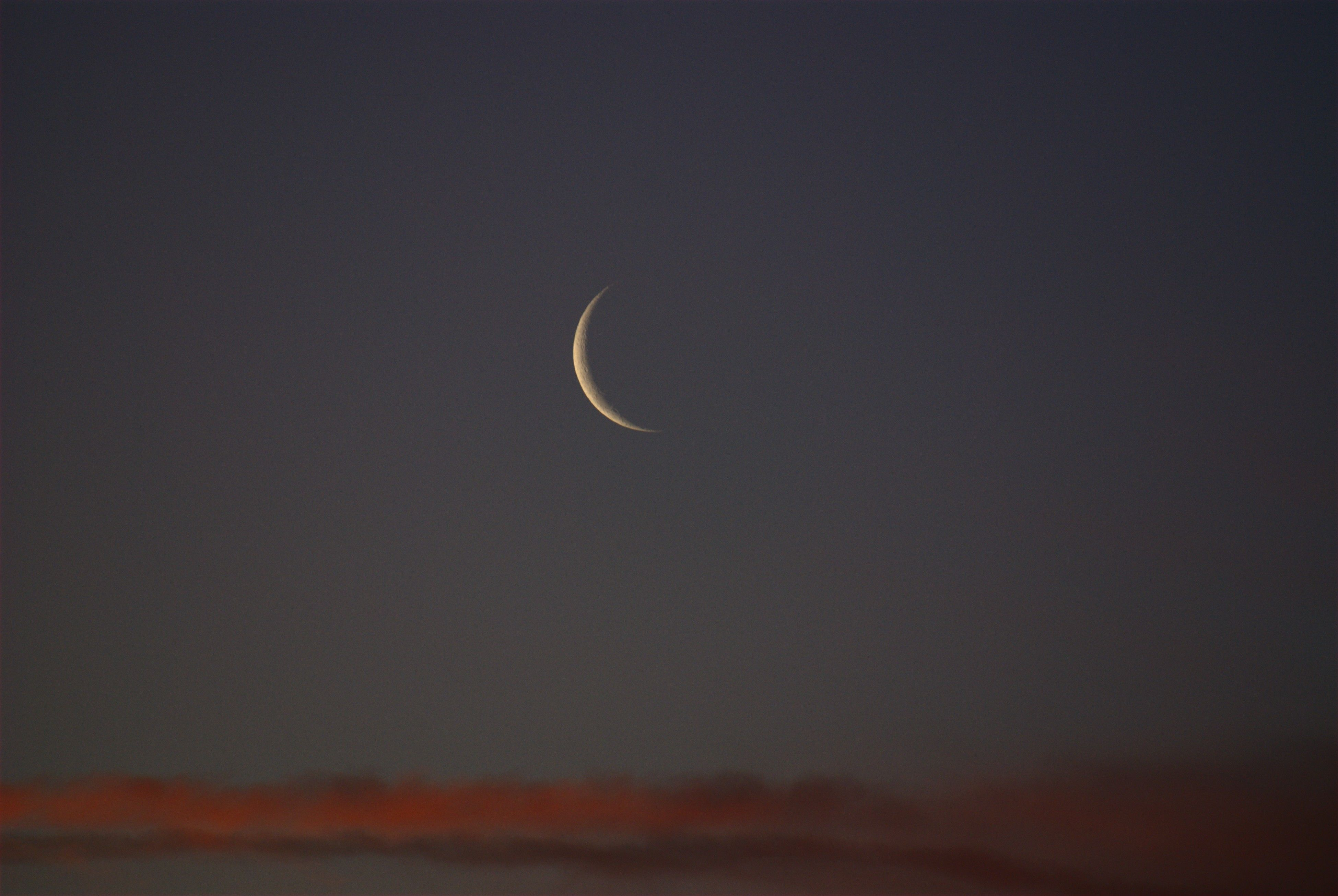 Image title: New Moon at sunset Image from Public domain images website